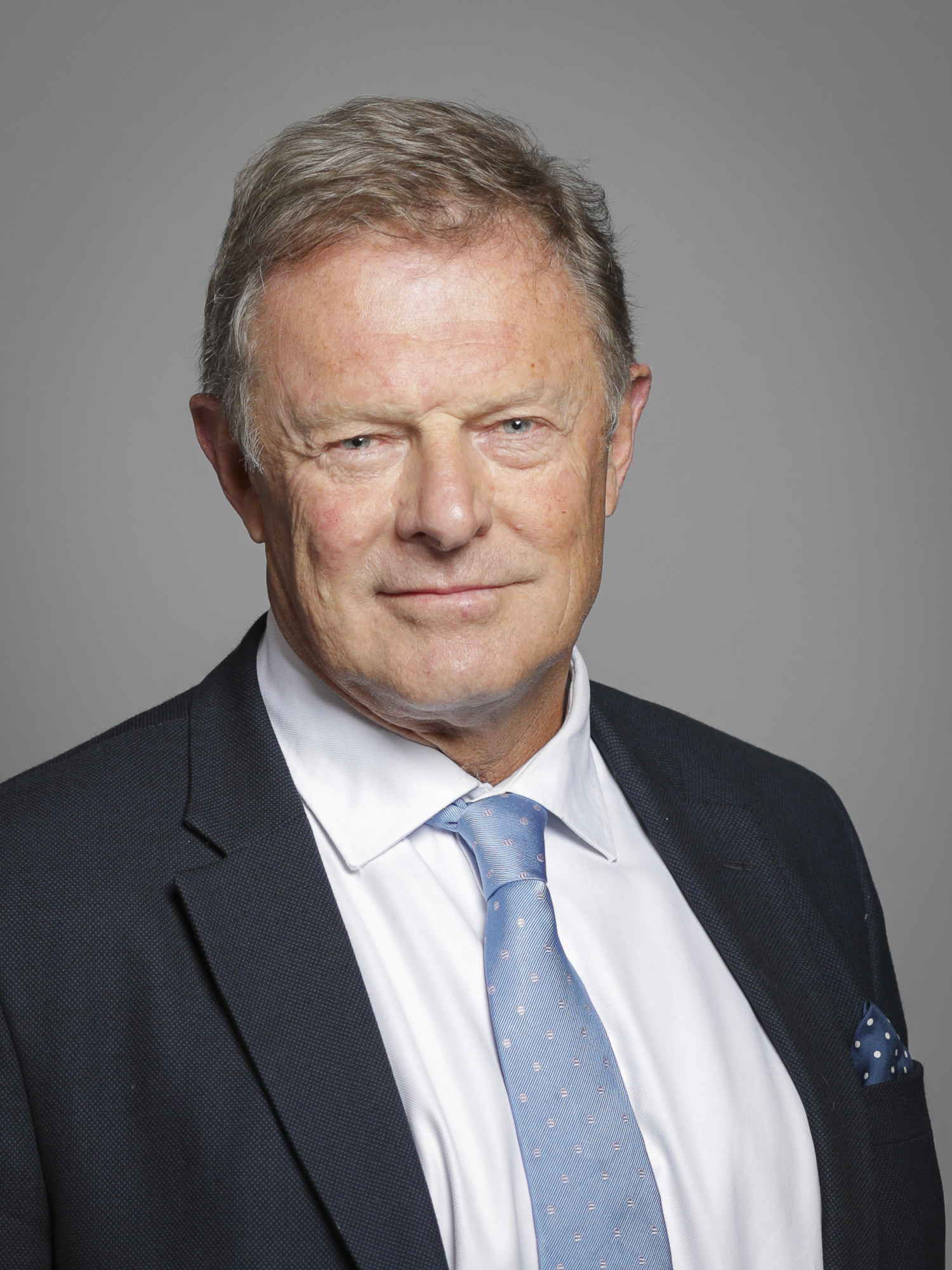 Official portrait of Lord St John of Bletso 3×4 portrait of Lord St John of Bletso